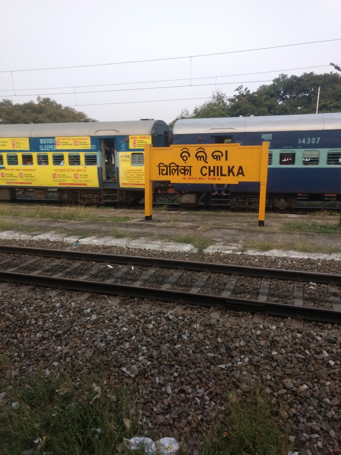 This is the Picture of Chilka railway station